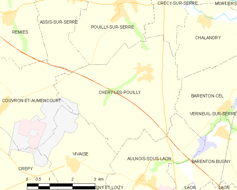 Map of French commune: Chéry-lès-Pouilly Map commune FR insee code 02180.png